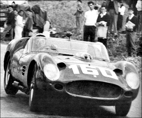 1960 Ferrari 250 Testa Rossa TRI/60 s/n 0780TR at Targa Florio on 30 April 1961. The driver is either Pedro Rodríguez, who was the main driver, or the co-driver Willy Mairesse. They did not finish.[1] This picture shows the car after a rebuilt. It has similar front as the original, but an entirely new rear end (elevated), in the style of TR61.